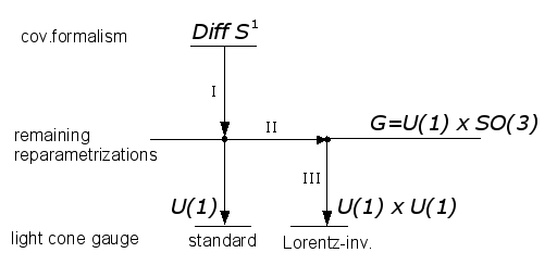 Gauge symmetries in non-critical string theory